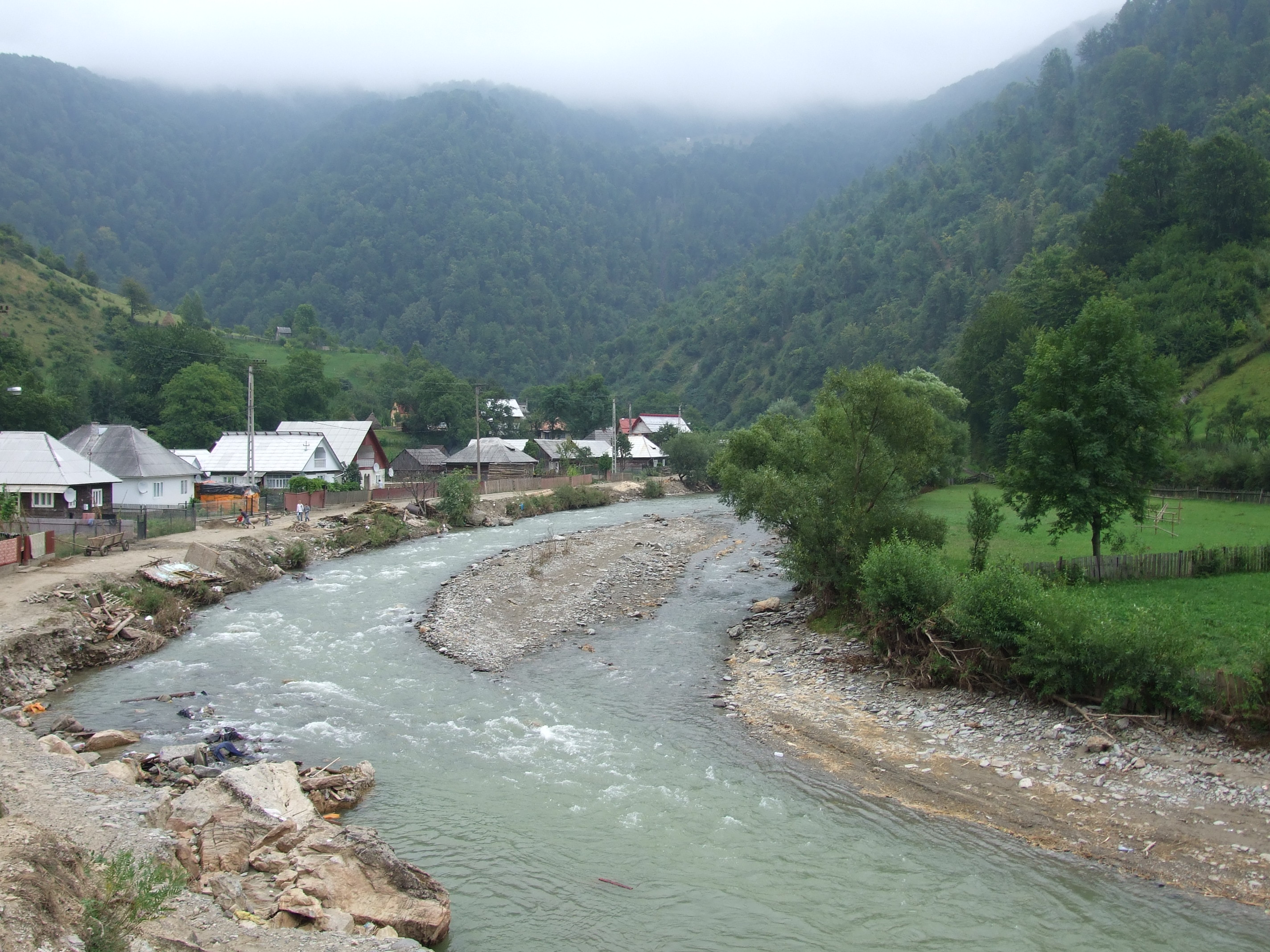 Vaser river valley near Vişeu de Sus town in Maramureş count, Romania. Here seen after july 2008 floodshelp